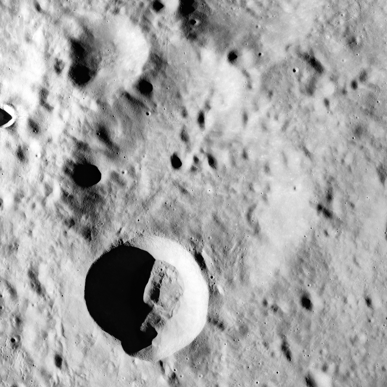 Koval'skiy crater on the far side of the moon. Spacecraft altitude: 117 km. Sun elevation: 18 deg.